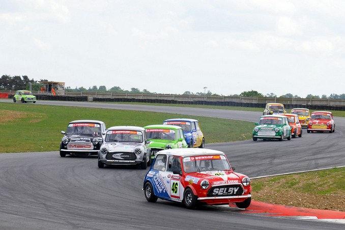 Mini Se7ens at Snetterton (7 & 8 May 2011) being led by Max Hunter (car no.46)